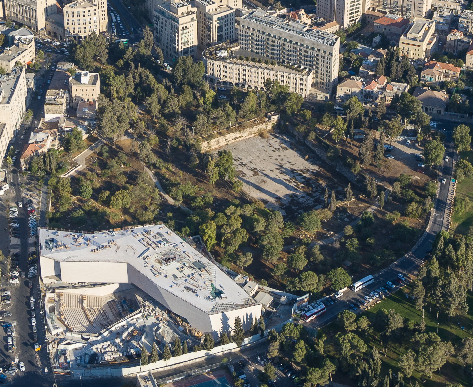 Aerial View of the Museum of Tolerance Jerusalem